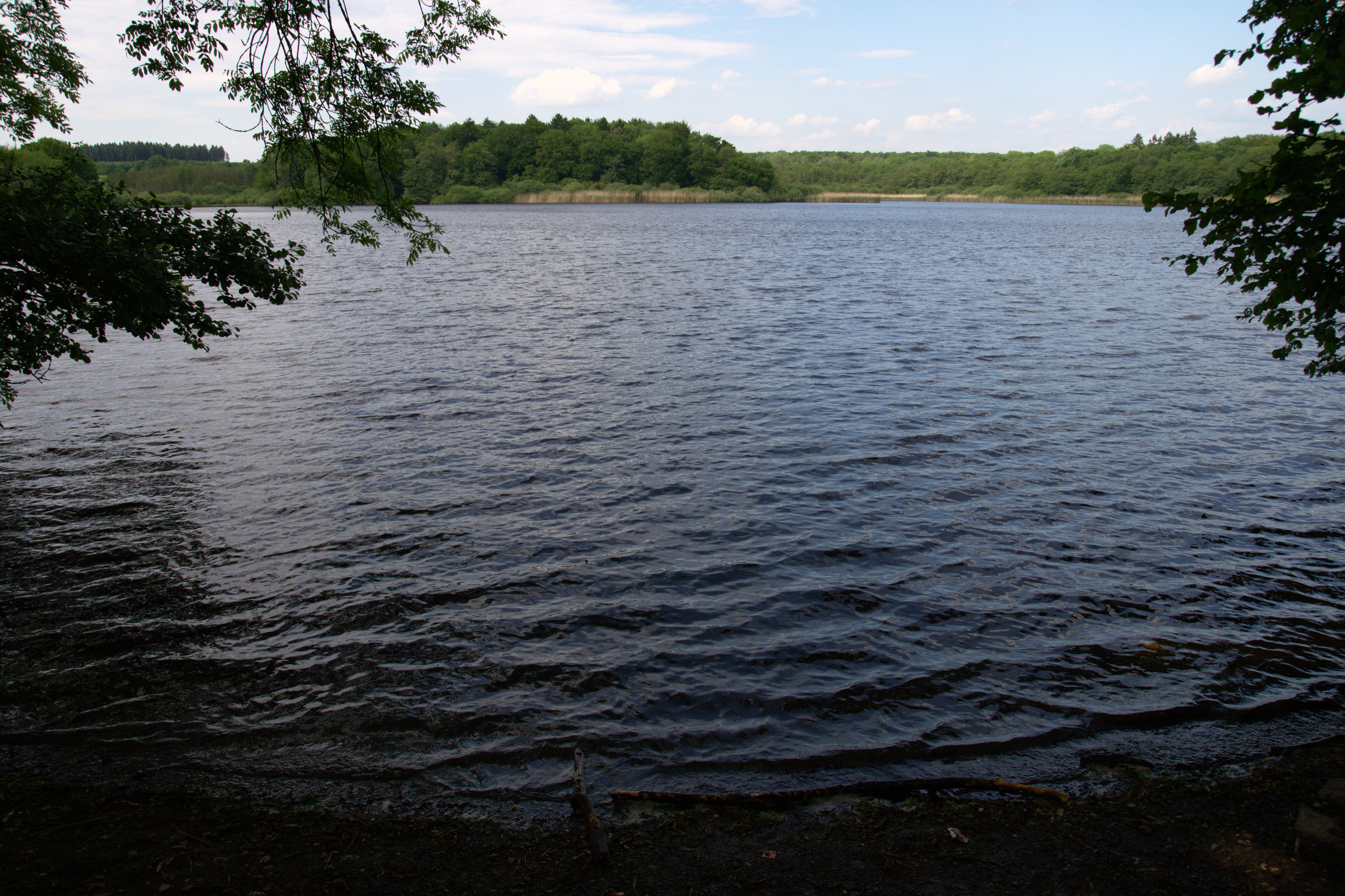 View from South over lake Brinkenweiher (Steinen municipality) in Westerwald, Rhineland-Palatinate, Germany